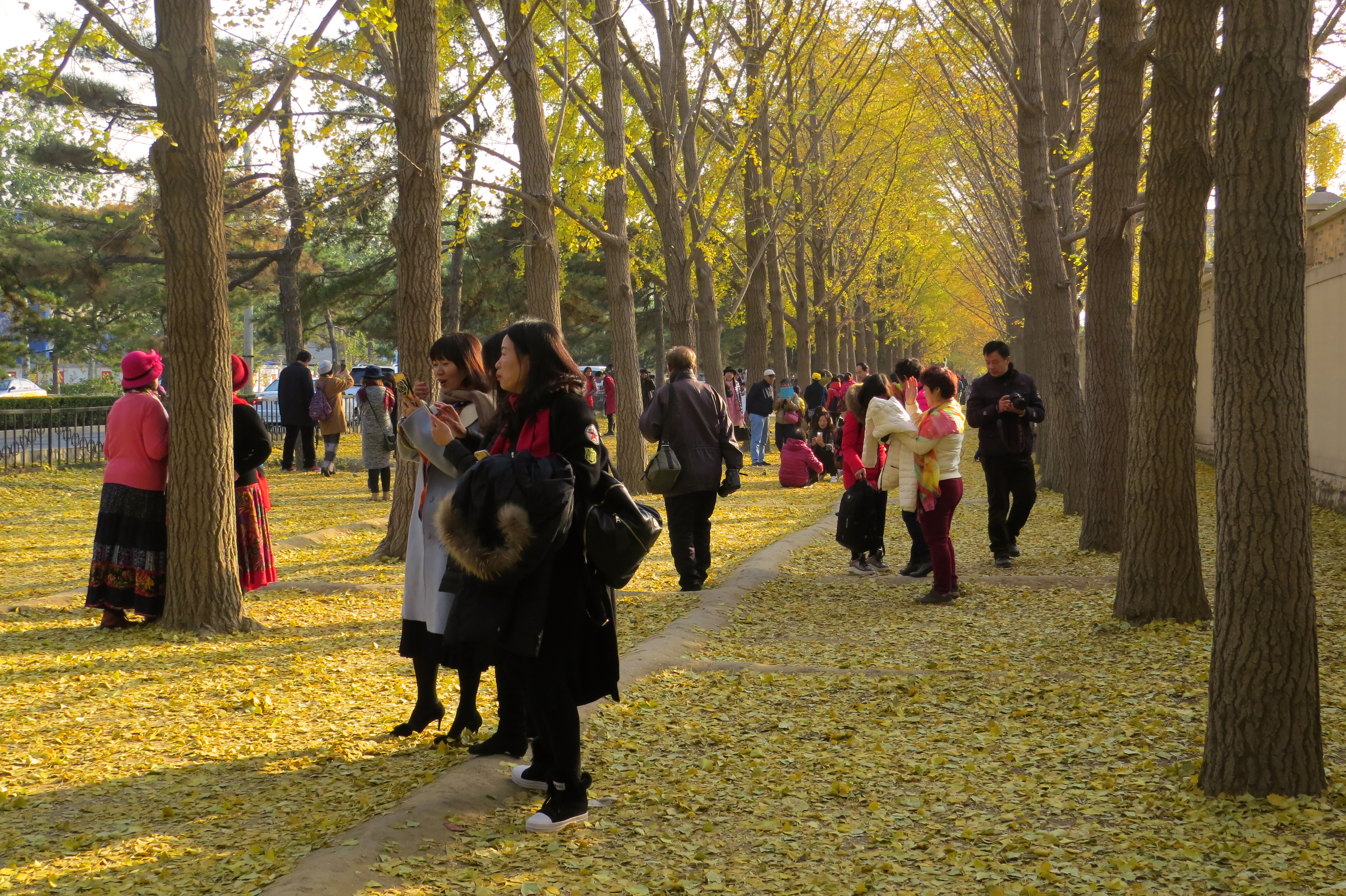 Photography by all means.